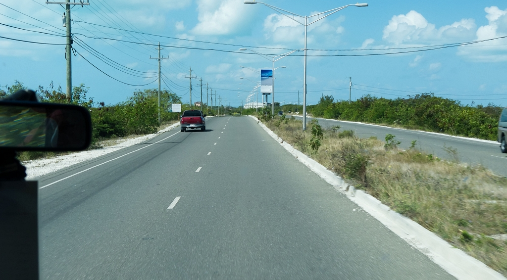 The Leeward Highway, Provo